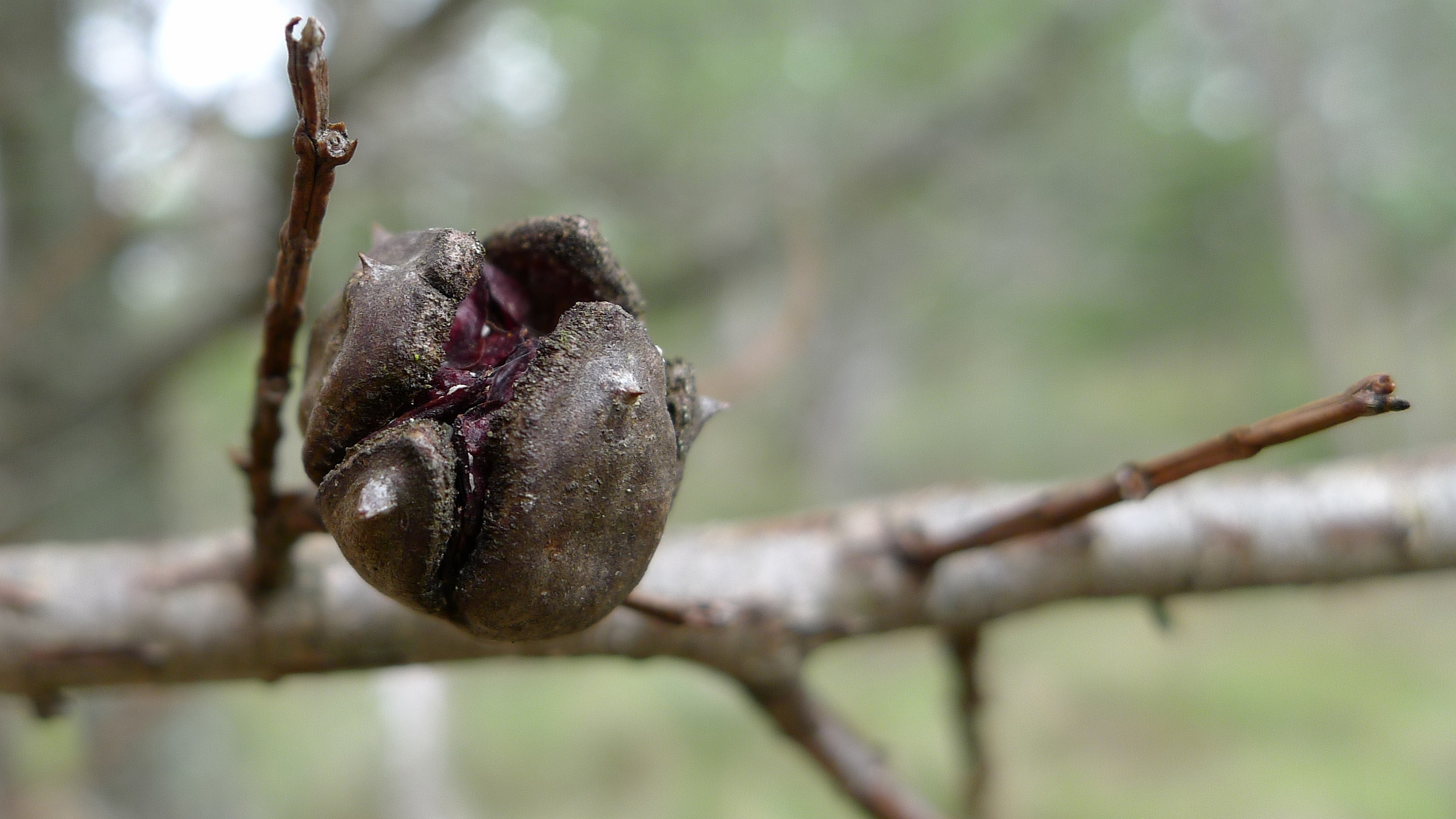 Black Cypress Pine, Callitris endlicheri. Tia Falls, Oxley Wild Rivers National Park, NSW Australia, April 2013.